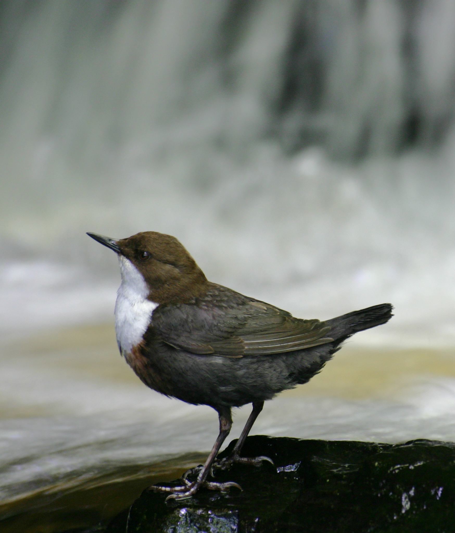 Photographed on a beck (small mountain stream) in the Howgill Fells, Cumbria, UK. A Eurasian White-fronted Dipper, C cinclus.